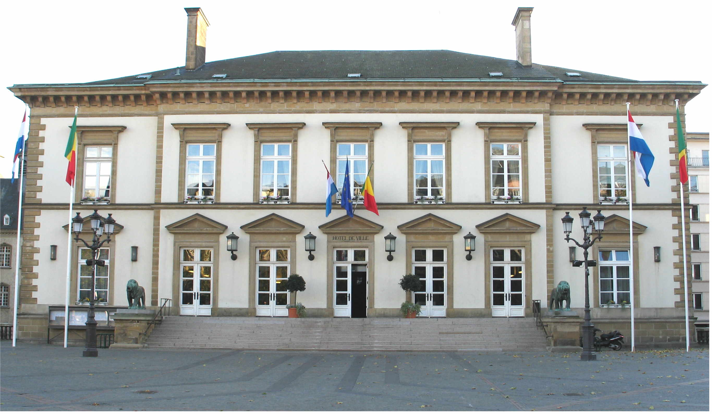 Luxembourg City, place Guillaume II: City Hall